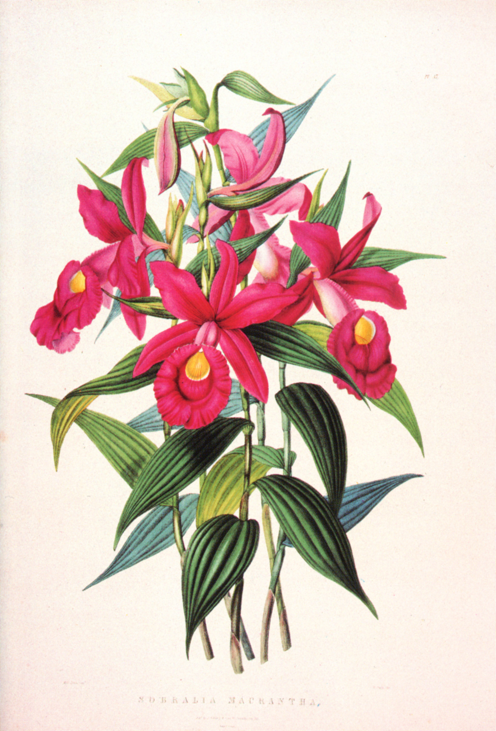 Sobralia macrantha